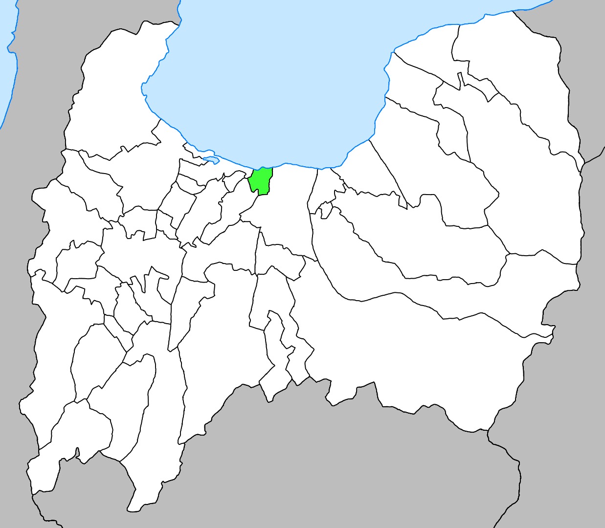 Map of Wagou-machi, Toyama Prefecture